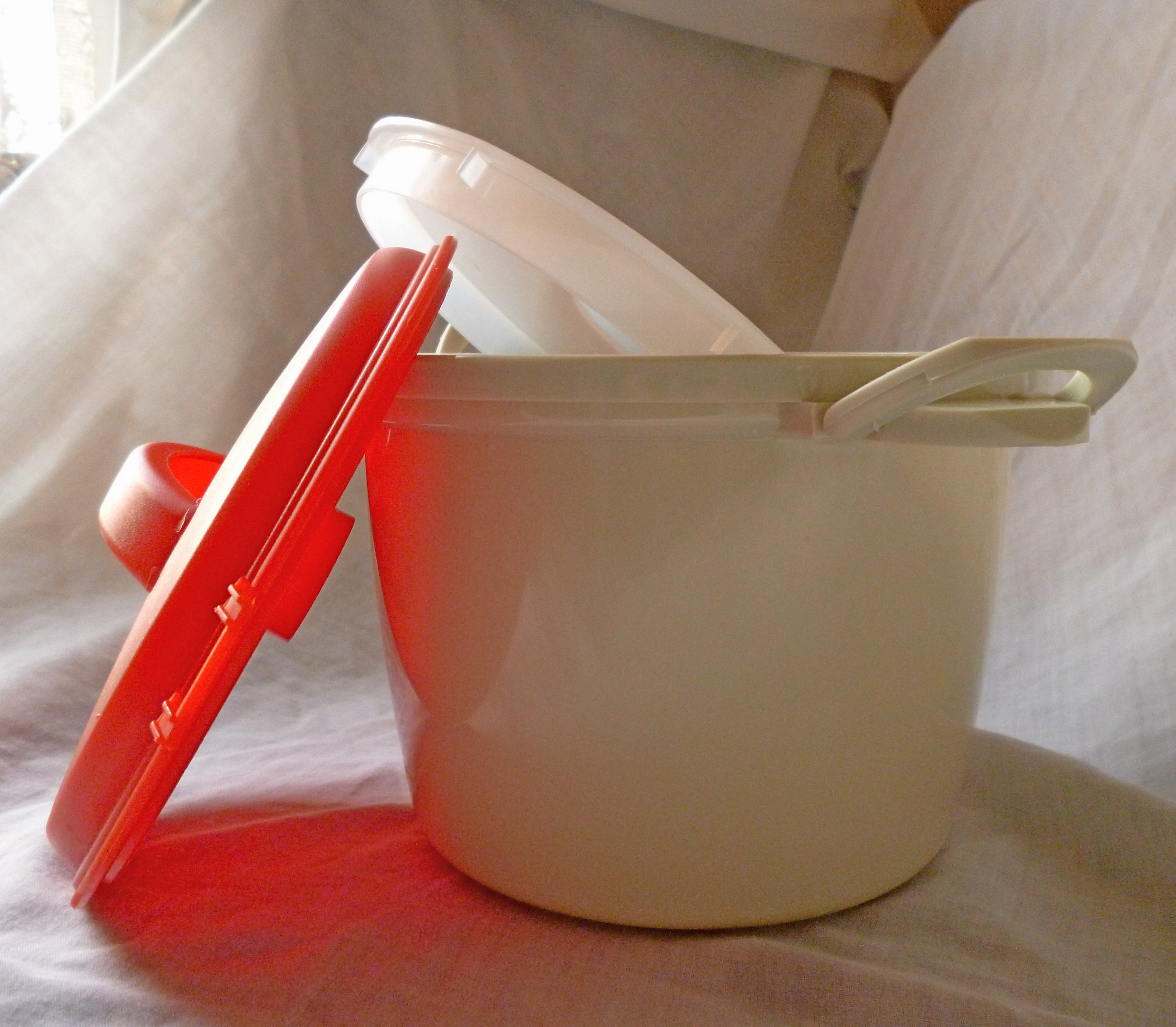 A typical plastic rice cooker for microwave ovens, with a two-part fastening lid that creates a gap to prevent overflow. The lids of ordinary cookware tend to increase the foam jets that lose water from the mixture.